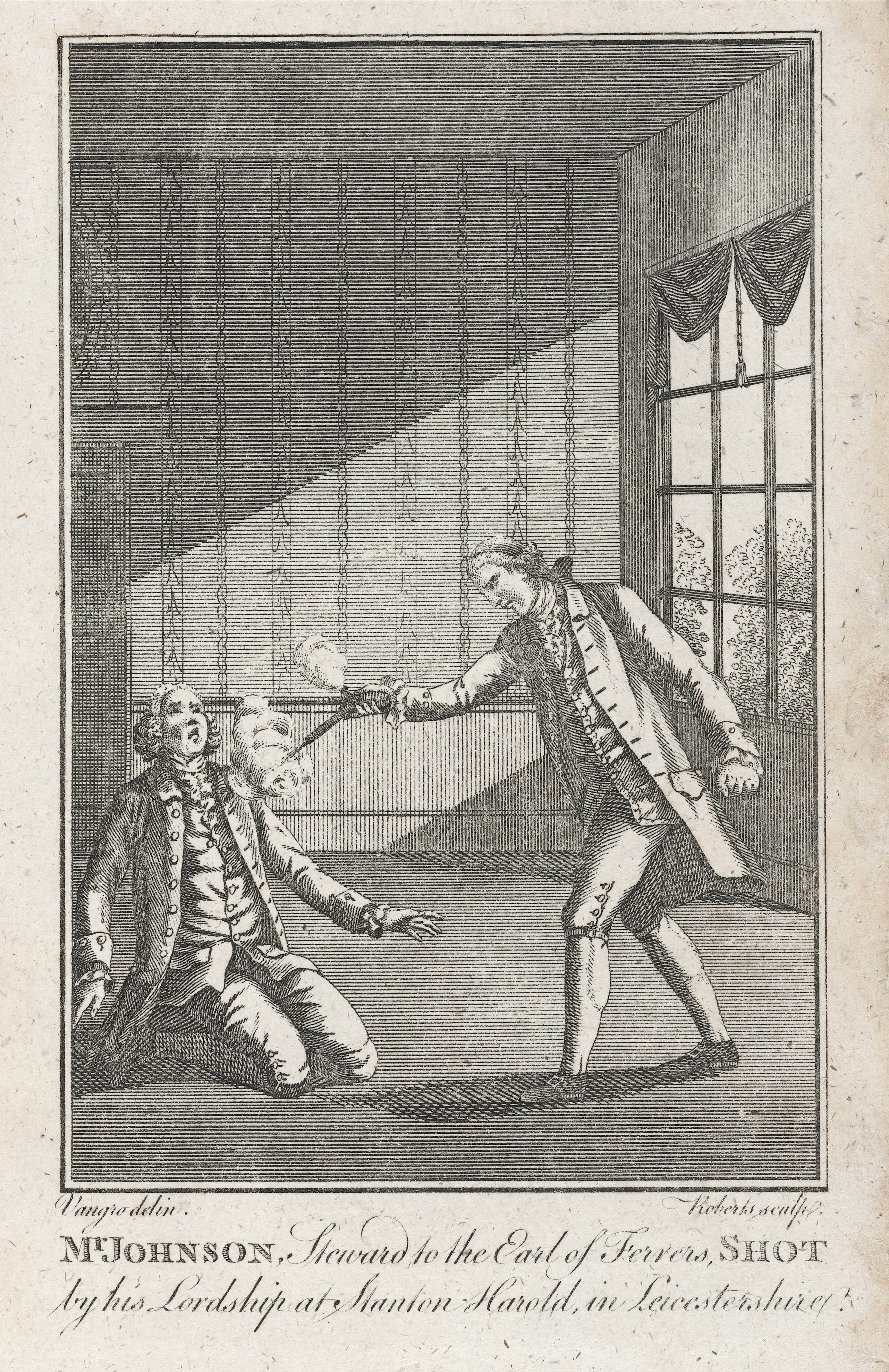 Lord Laurence Earl Ferrers shooting his Steward, Mr Johnson Rare Books Keywords: Criminals; Homicide; Criminal; Murder